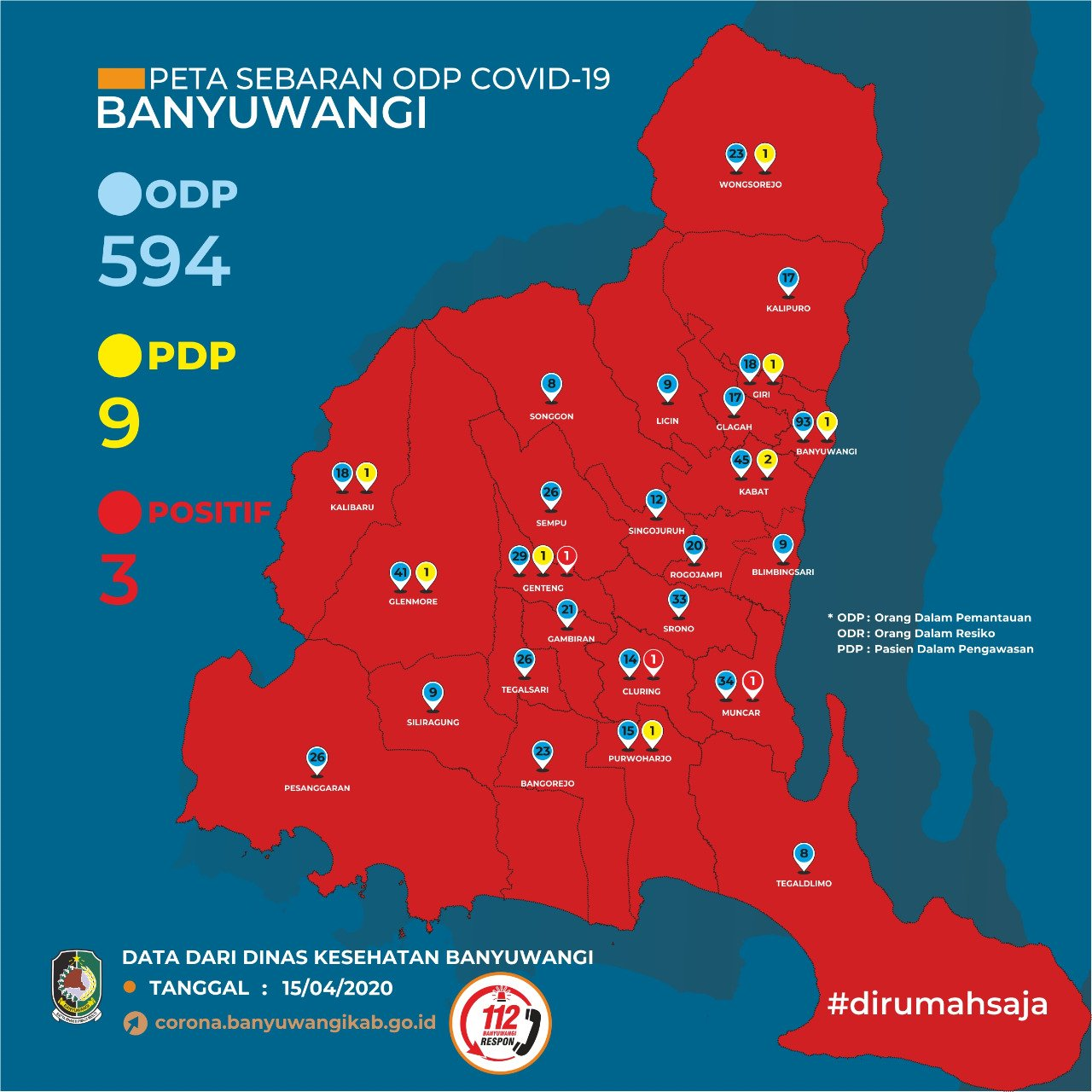 COVID-19 location in Banyuwangi Regency (15 April 2020)